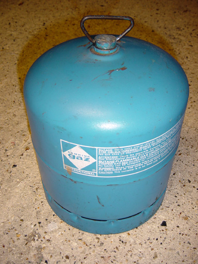 Photograph taken by me of a camping gaz bottle...